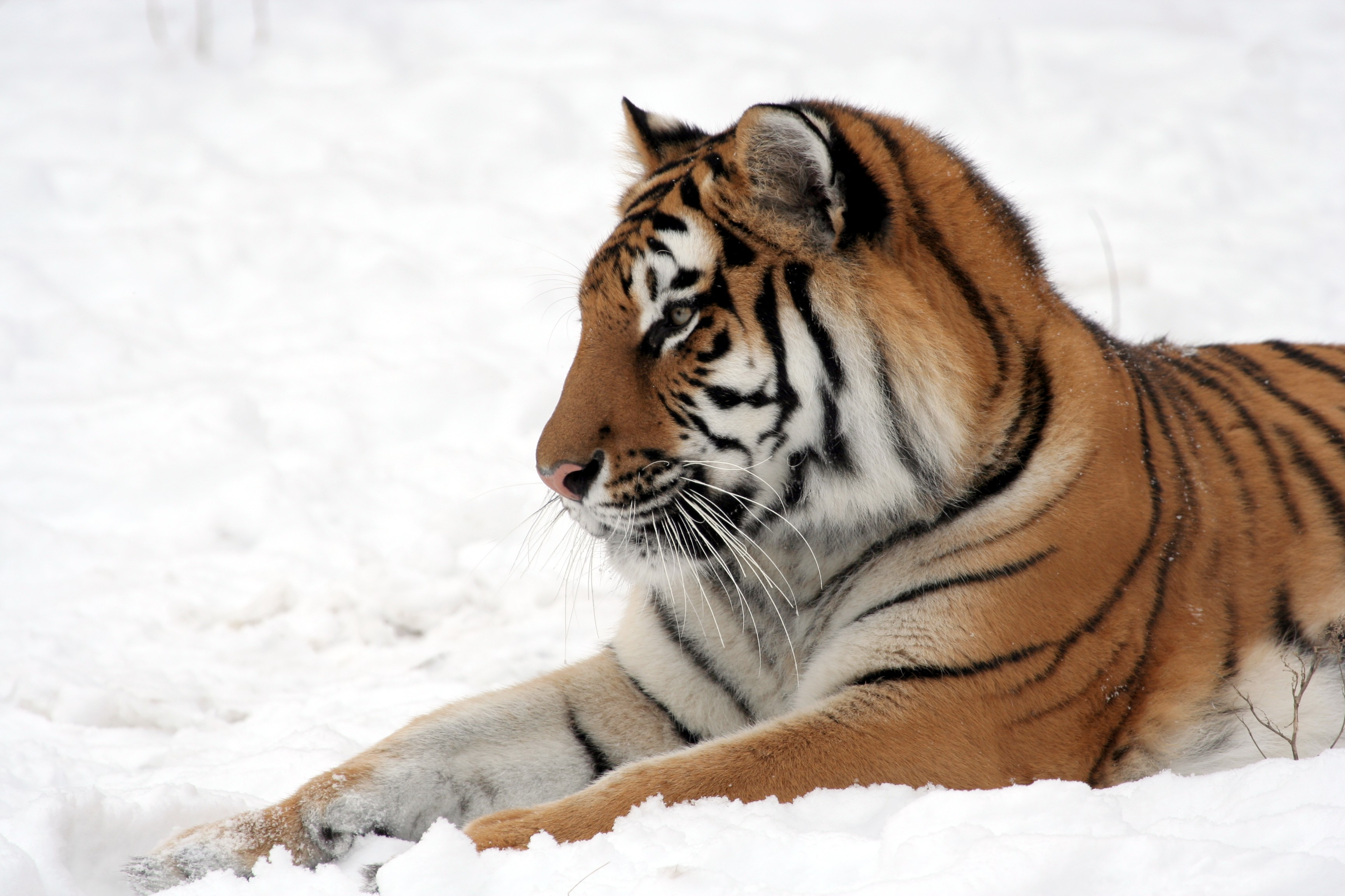 Amur tiger (Panthera tigris altaica) at the Buffalo Zoo. Cubs Thyme and Warner, with their mother Sungari. The cubs were born at the zoo to Sungari, and father Toma, on 7 October 2007.